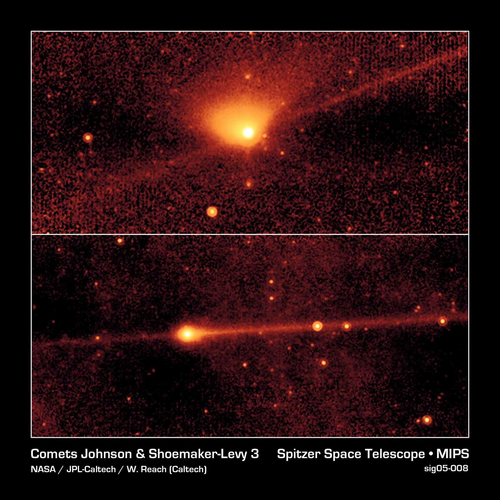 These images of the Jupiter-family comets Johnson (top) and Shoemaker-Levy 3 (bottom) were both taken with Spitzer's multiband imaging photometer (MIPS) at a wavelength of 24 microns. The fan-shaped region that stretches upward from Johnson's nucleus (yellow ball in the middle) represents the dust "tail" of the comet. Dust tails are created when small particles from a comet are swept backward by the Sun's radiation pressure. The image of Shoemaker-Levy 3 (bottom) does not show a dust tail. In both images the long thin trail of emission that precisely follows the orbit of the comet is believed to be a debris trail of solid material, ranging from millimeters to centimeters in size. Such particles, called meteoroids, are the same size as those that appear in meteor showers when they enter the Earth's atmosphere. Because any trace of water would evaporate in the Sun's heat, astronomers do not believe that debris trails contain ice. These meteoroids have evaded detection in previous comet images because they are relatively faint in visible light. At mid-infrared wavelengths, meteoroids give off infrared radiation. Any object with an internal temperature higher than absolute zero (-273.5 degrees Celsius or zero Kelvin) produces thermal radiation; objects in the inner solar system give off radiation at mid-infrared wavelengths. Consequently, MIPS allows astronomers to study the production of meteoroids by comets whose orbits do not cross the Earth's path. Spitzer images have also shown that there is more mass in the debris trails of comets than in their dust tails and gases. The results of Spitzer's observations are consistent with those obtained by space probes that encountered comet Halley in 1986. In Halley's case, large particles produced by the comet were not only detected, but caused significant damage to the probes.